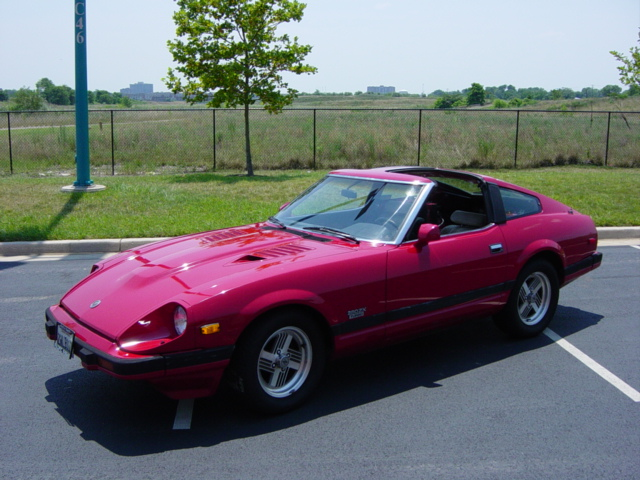 A 1982 Datsun 280ZX Turbo